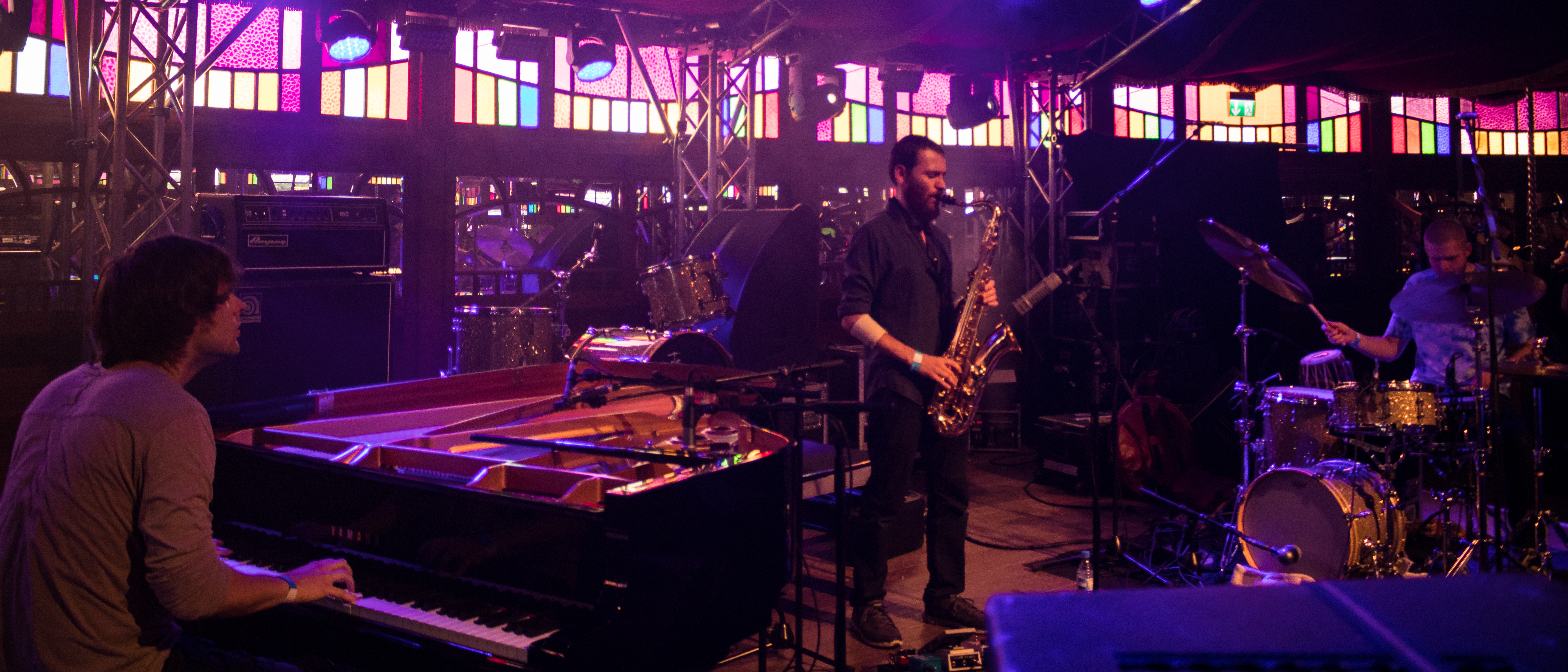 Mammal Hands at Haldern Pop Festival 2017